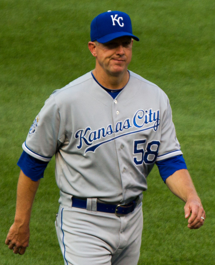 Kansas City Royals coach Dave Eiland – Royals at Orioles May 25, 2012